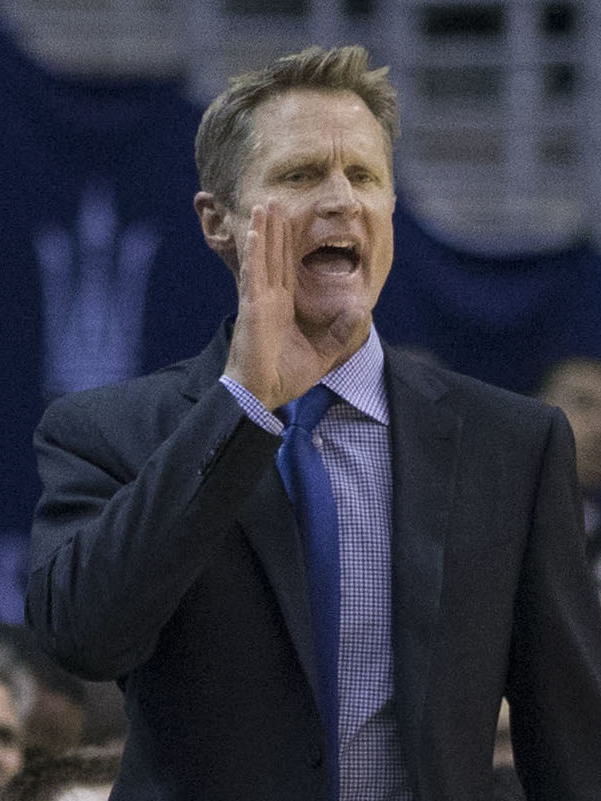 Golden State Warriors head coach Steve Kerr